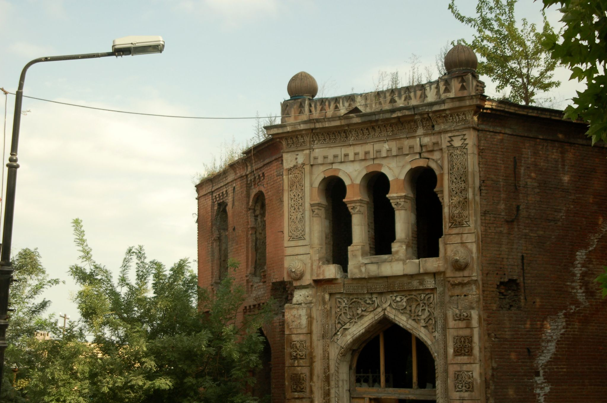 Caravanserai in Tbilisi